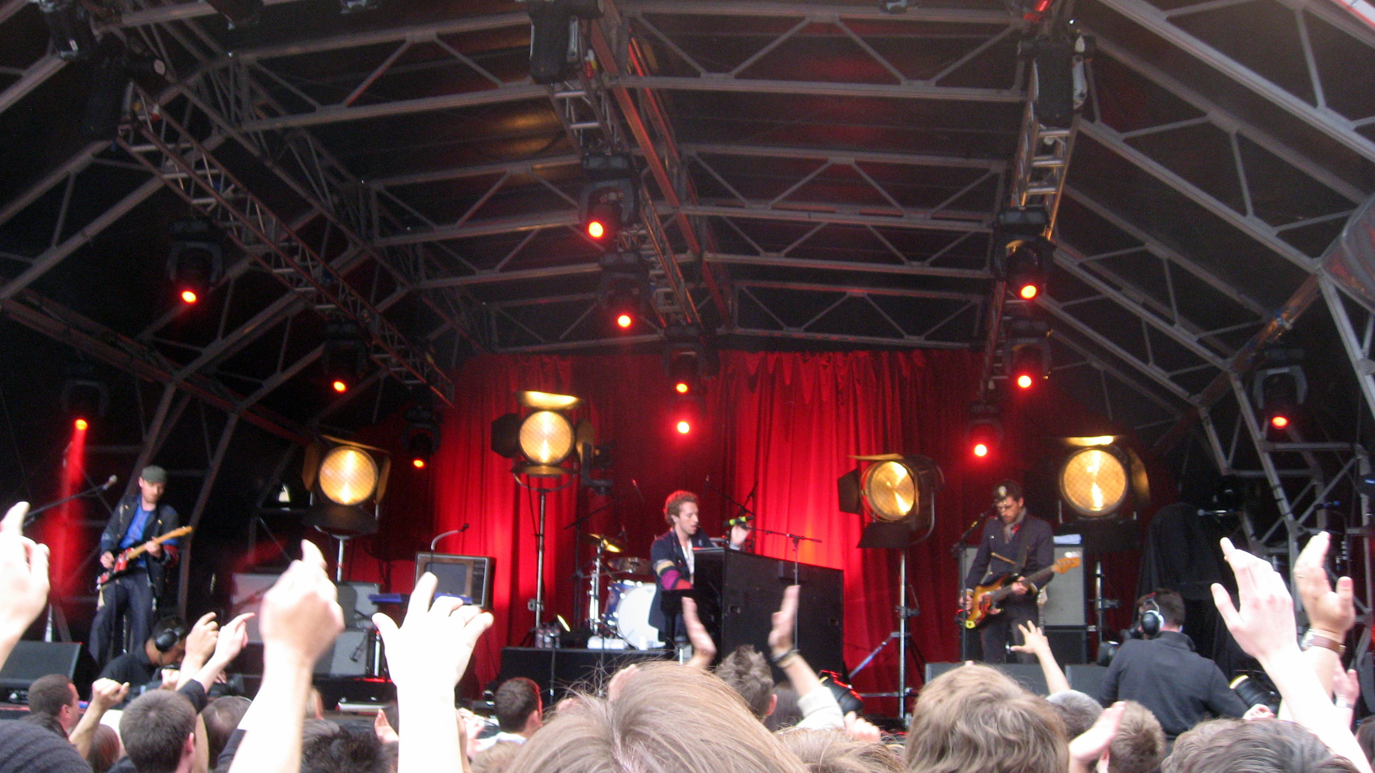 Coldplay performing live on 18 June 2008 at a BBC Concert